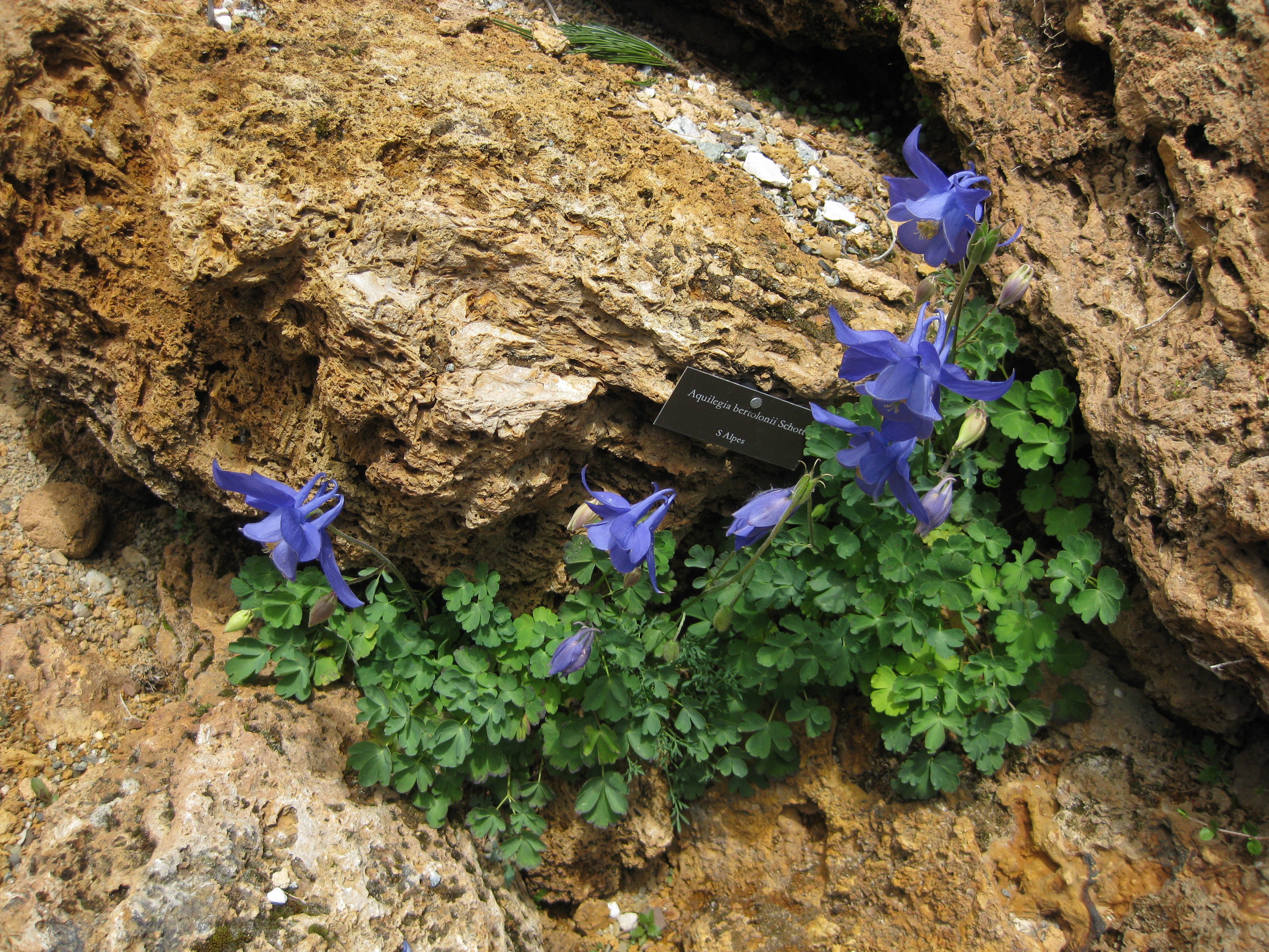 Aquilegia bertolonii in the Jardin Botanique Alpin du Lautaret